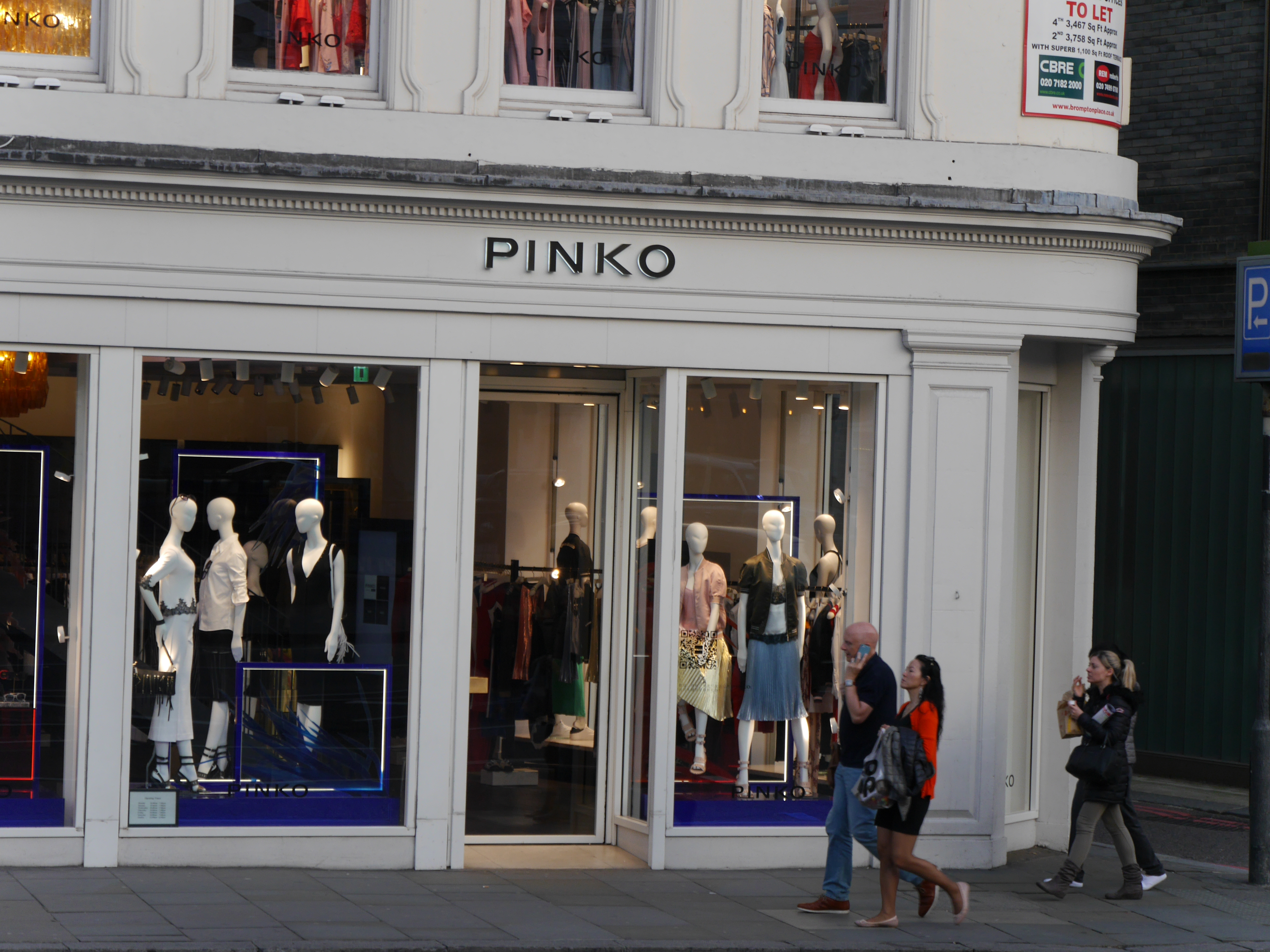 Brompton Road, London, June 2016